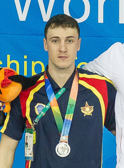 Alexandr Tarabrin. Foto: Sgt Johnson Barros